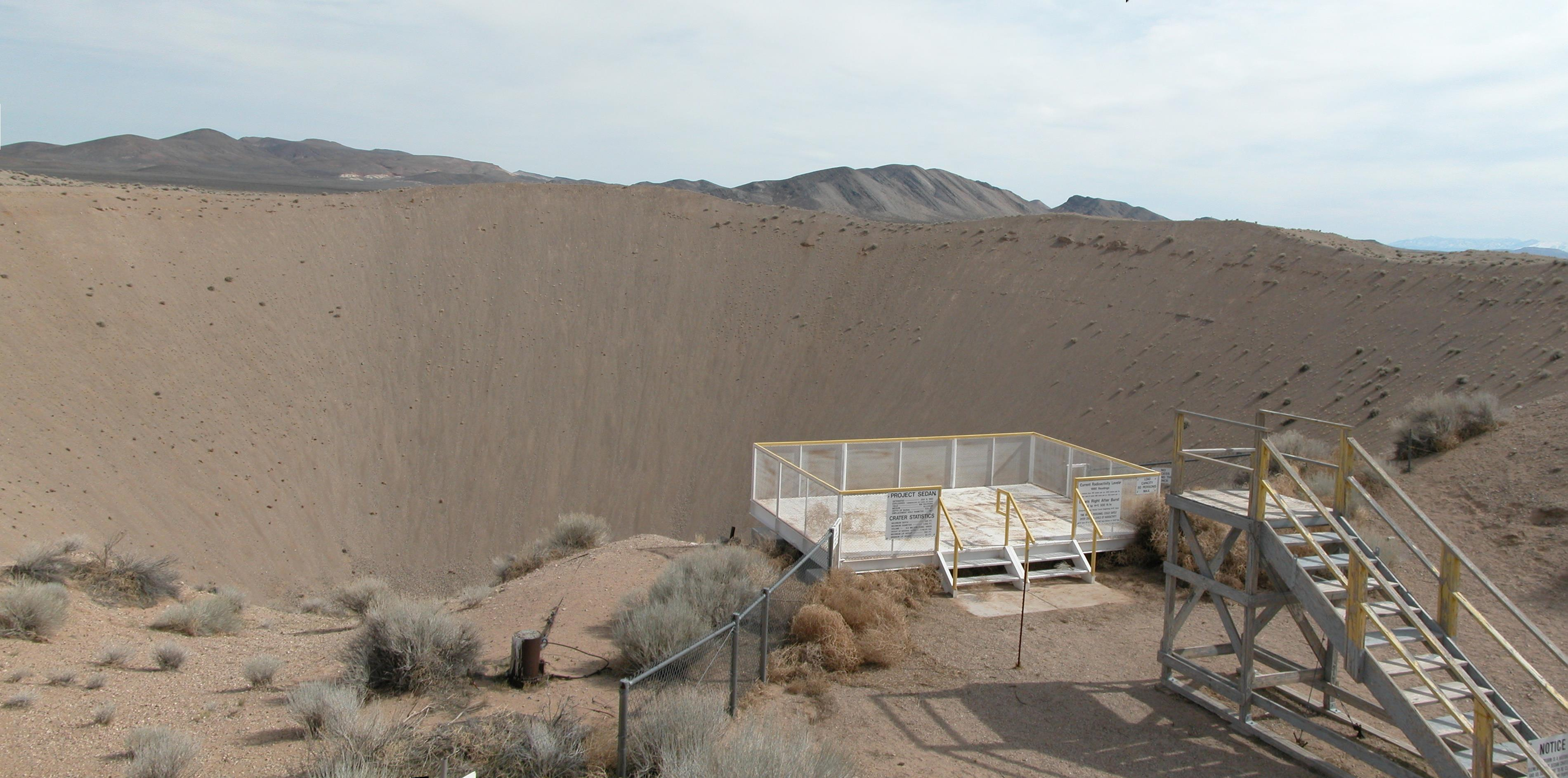 Old and new observation decks at the Sedan Crater at Nevada Test Site